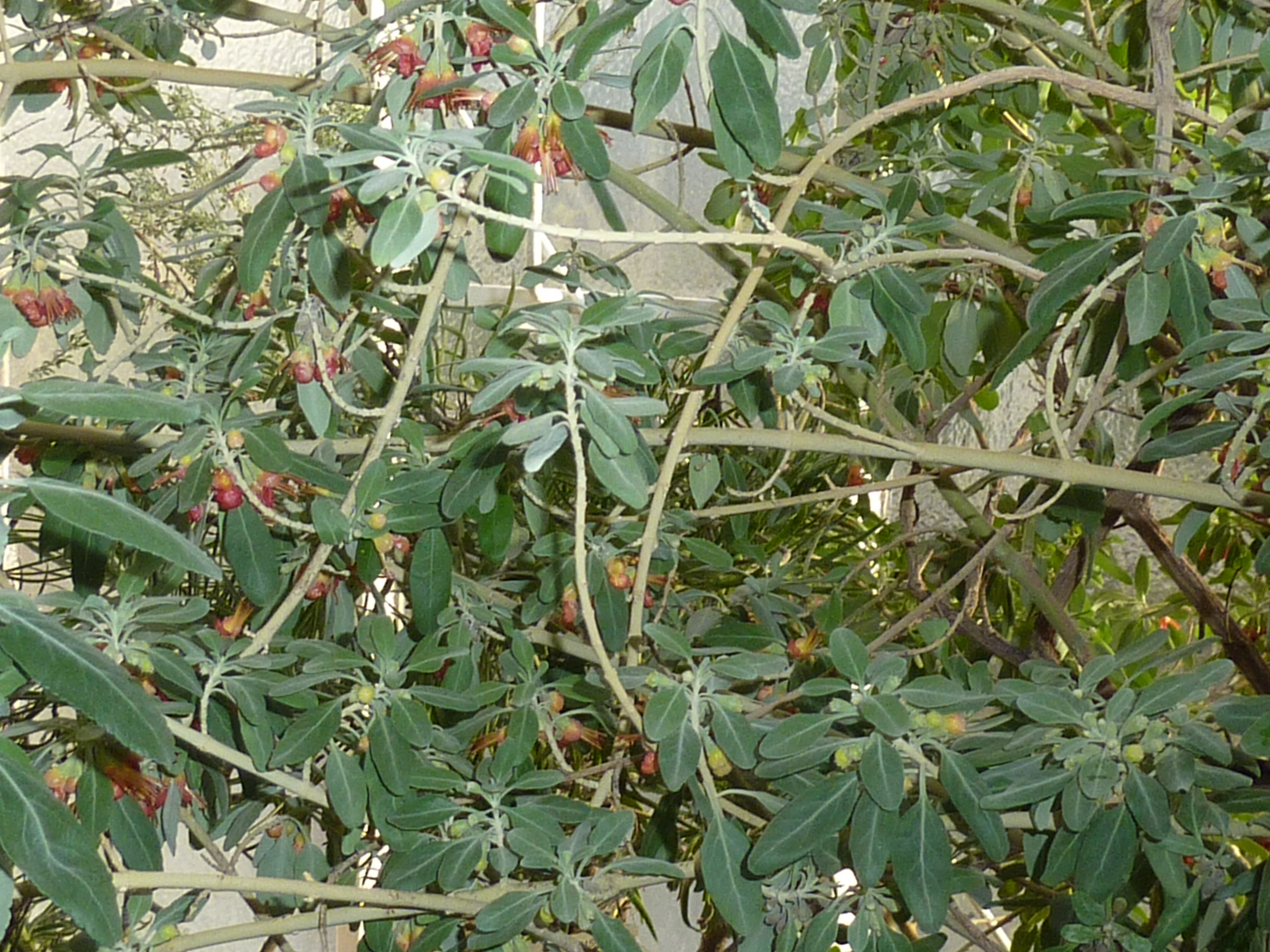 Teucrium heterophyllum in the Botanical Garden, Berlin